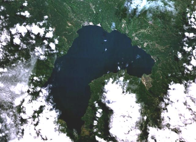 Crescent-shaped Lake Ranau partially fills the 8 x 13 km Ranau caldera in Indonesia. A morphologically young post-caldera stratovolcano, Gunung Semuning, its summit capped by clouds below the bottom center lake shore in this NASA Landsat image (with north to the top), was constructed within the SE side of the caldera to a height of more than 1600 m above the caldera lake surface. The age of the most recent eruptions at Ranau are not known, but fish kills and sulfur smells in the late 19th and early 20th centuries may be related to sublacustral eruptions.